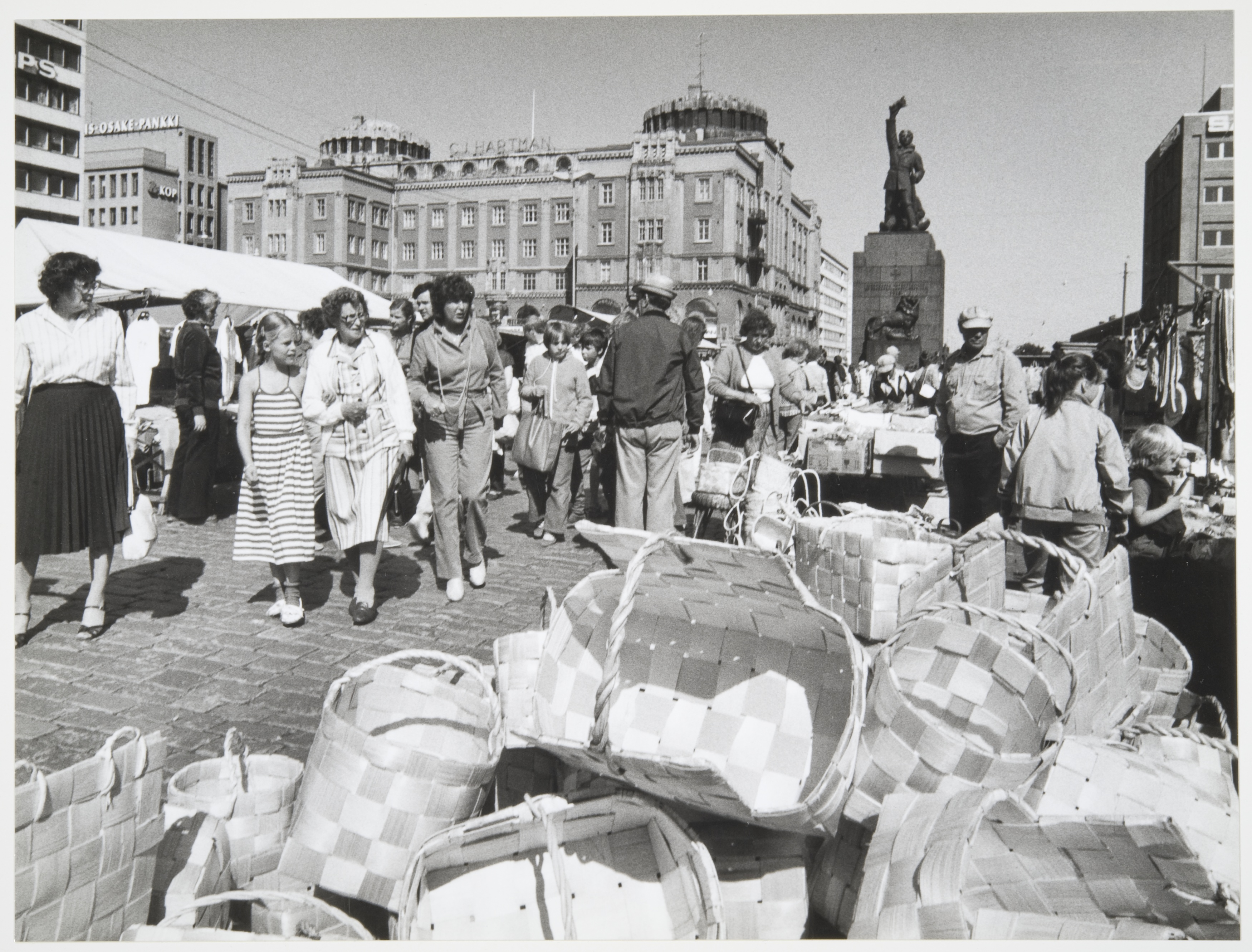 Woven baskets for sale at the market square in Vaasa 1981.